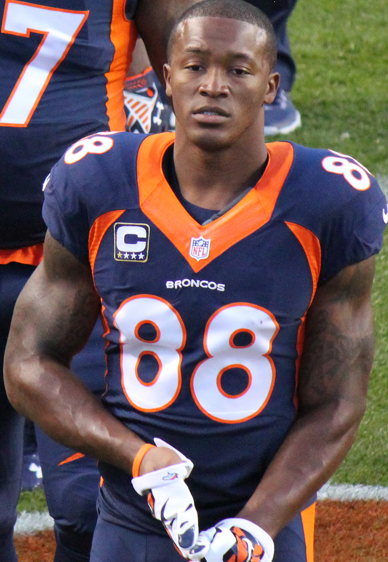 Demaryius Thomas, a player on the National Football League.